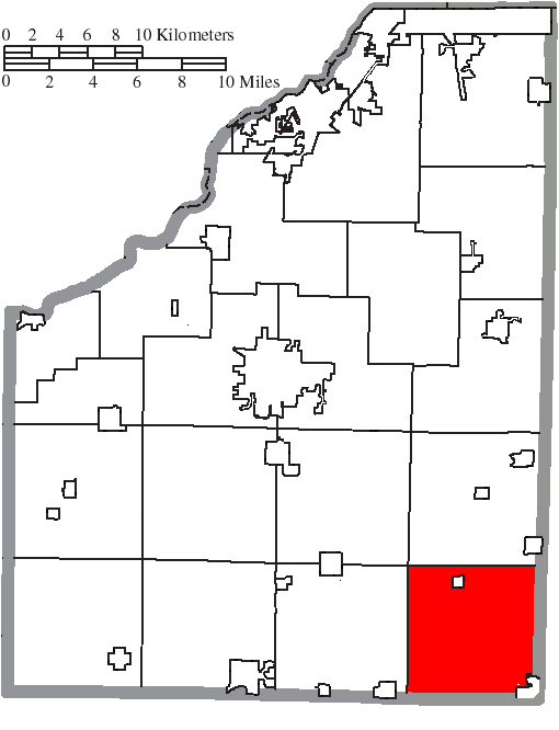 Map of the municipal and township boundaries of Wood County, Ohio, United States, as of the 2000 census, with the location of Perry Township highlighted. Township borders are shown only in unincorporated areas in order to differentiate incorporated and unincorporated areas more clearly.